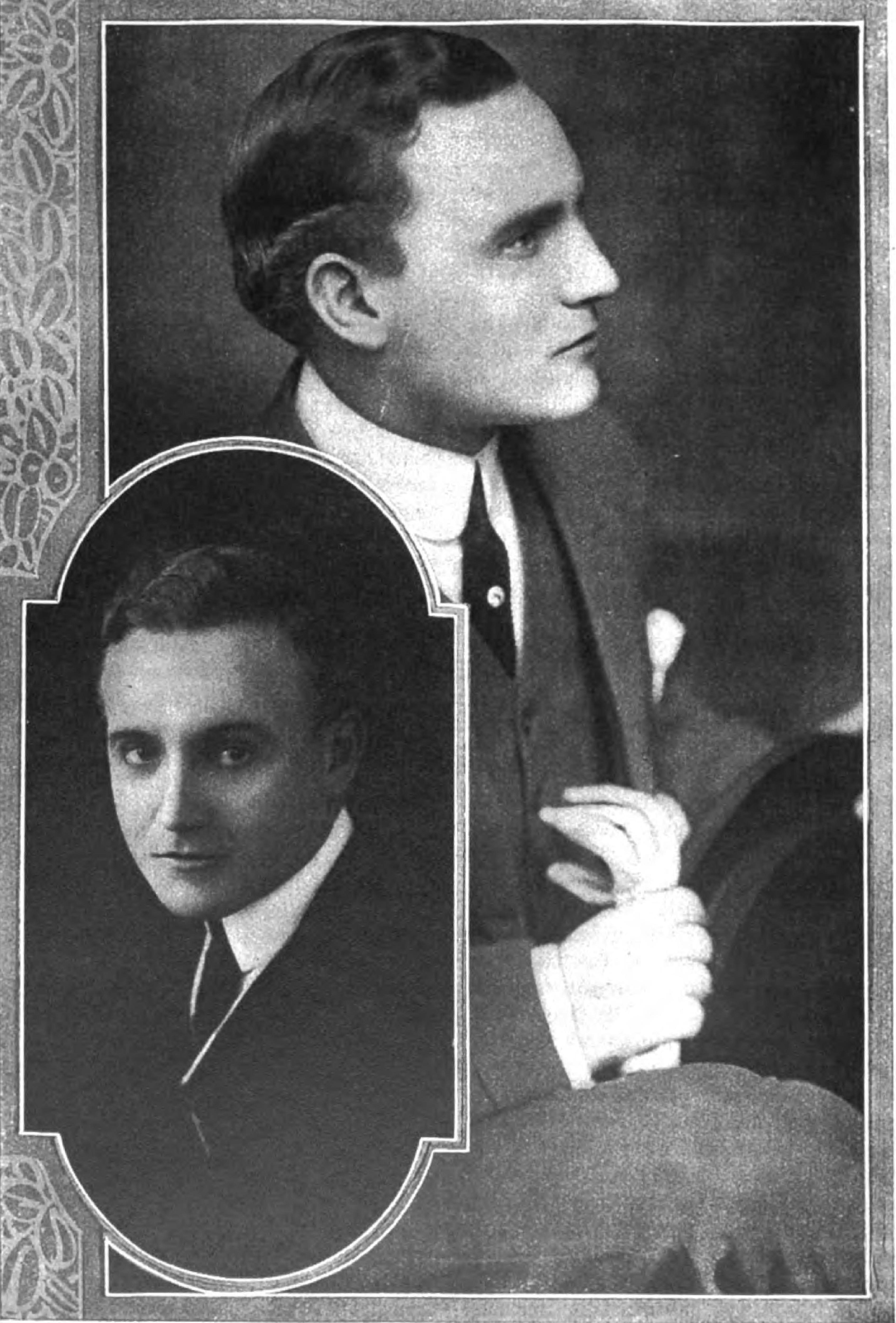 Kempton Greene (28 June 1890 – October 1966) was an American film actor of the silent era